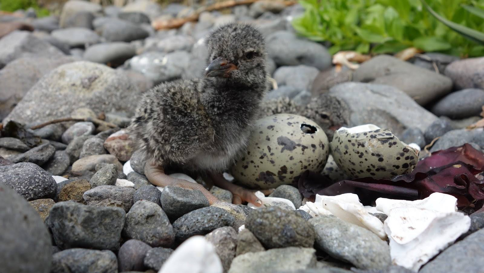 Black Oystercatcher Chick on Aiktak by Mikaela Howie/USFWS